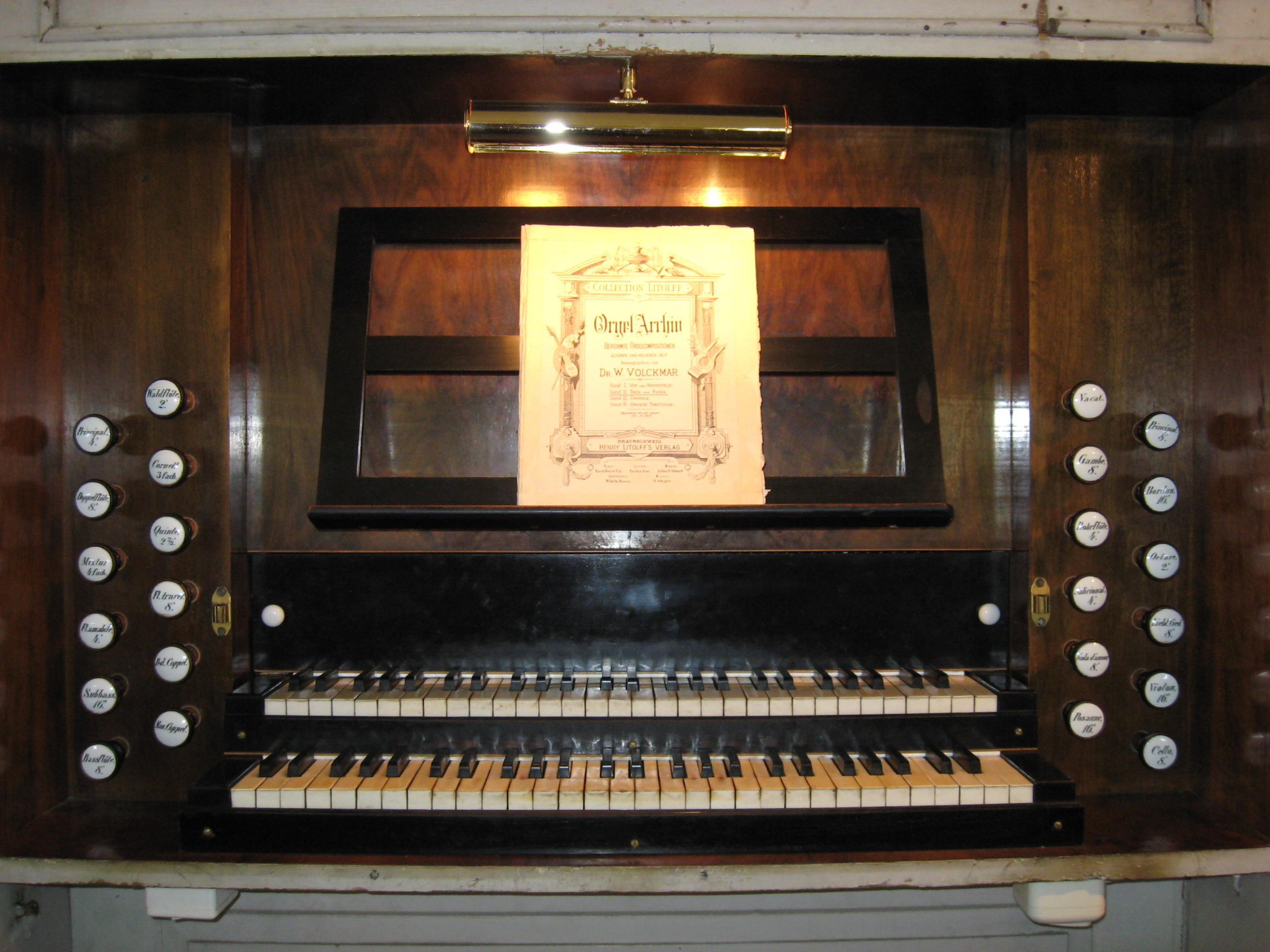 Valga St.John's church organ manuals.